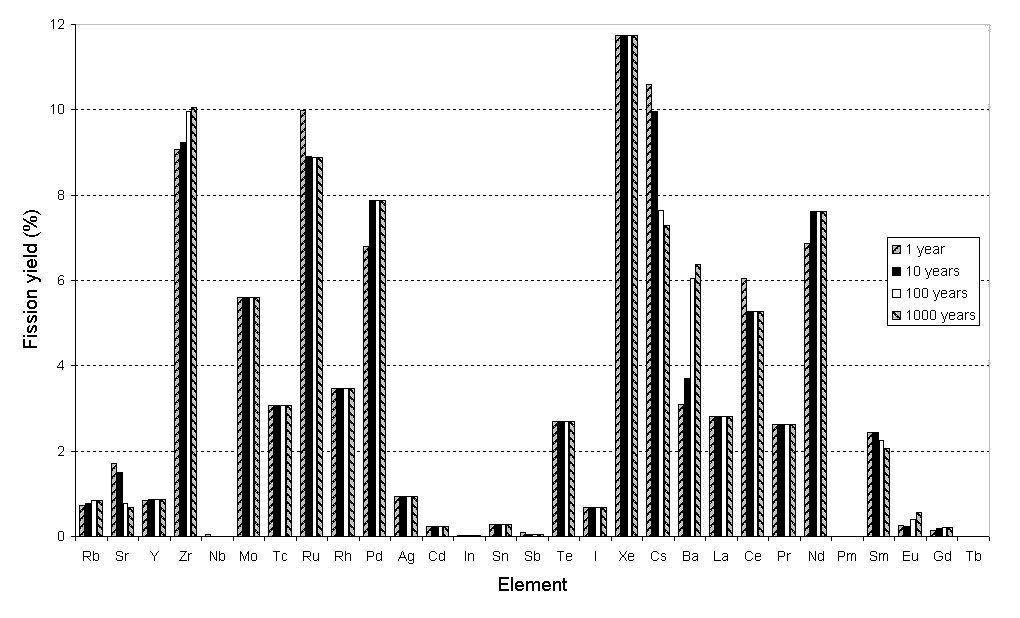 Yield of different elements from nuclear fission after different cooling times. This is only a rough estimate. The author did not specify the parent nuclide: the fission of what?